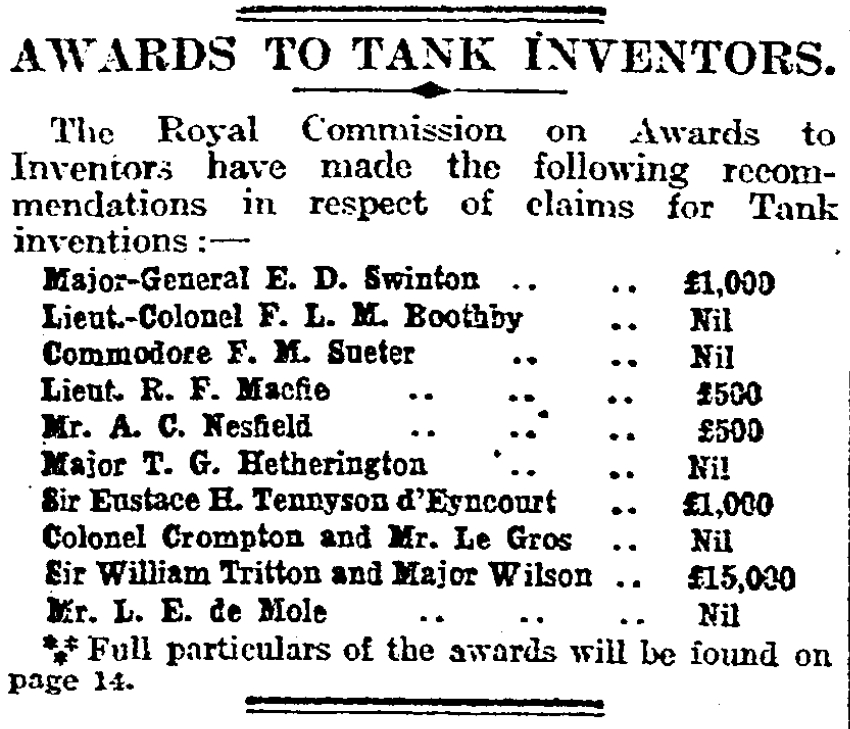 Summary of Awards made by the U.K. Royal Commission on Awards to Inventors (1919) to the 12 individuals claiming to have invented the tank